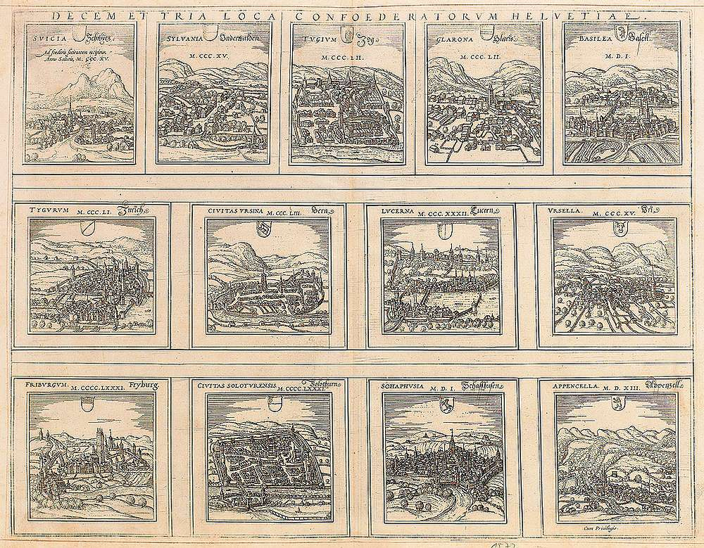 Decem et Tria Loca Confoederatorum Helvetiae – the thirteen old members of the Swiss Confederacy. Copperplat engaving by Braun & Hogenberg, 1572; 37 x 47,5 cm